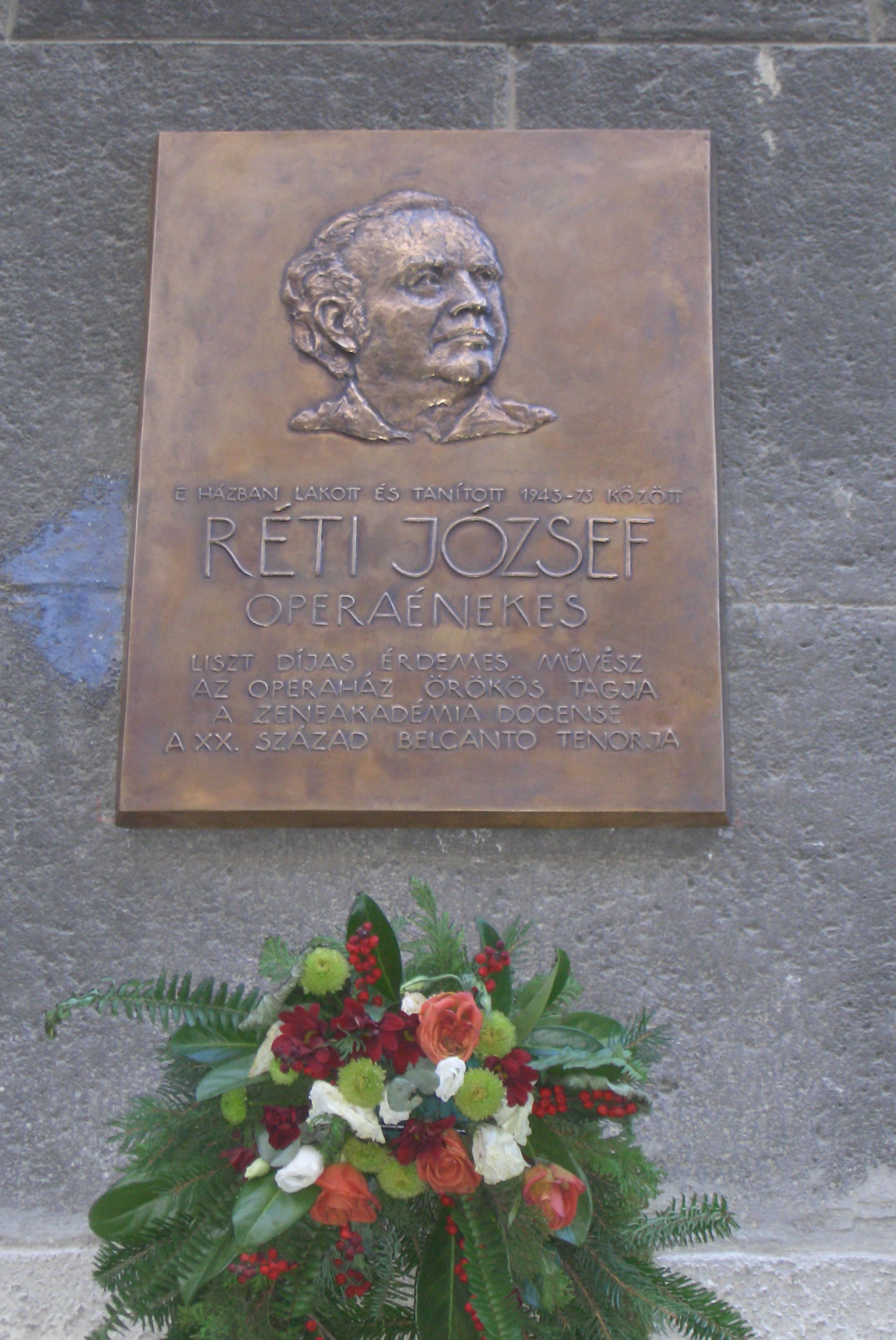 Memorial plaque for opera singer József Réti, in his former home, on 27 Naphegy street, Budapest 1st district. Erected November 2017.